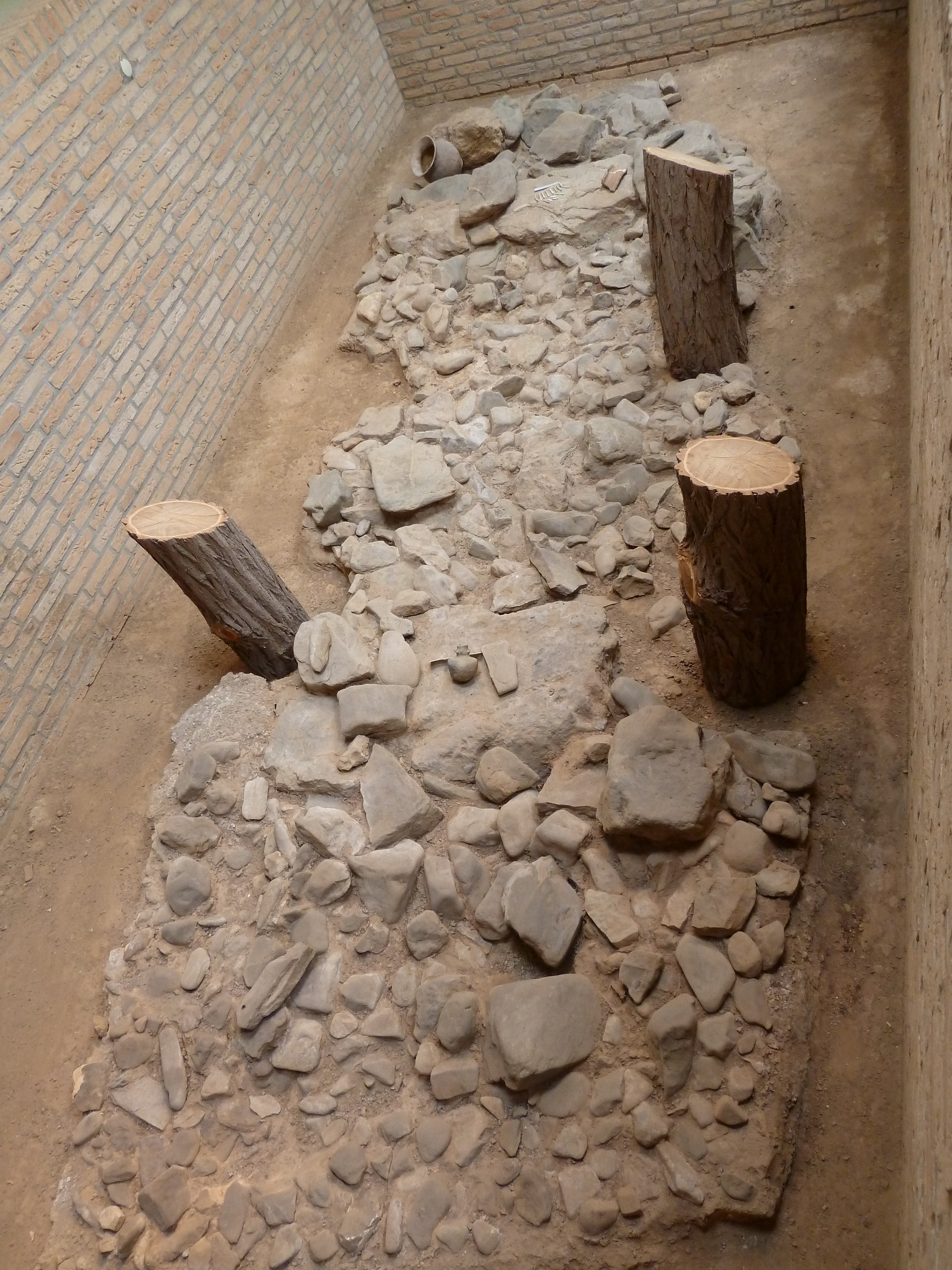 Burial chamber of Stein, Limburg, the Netherlands